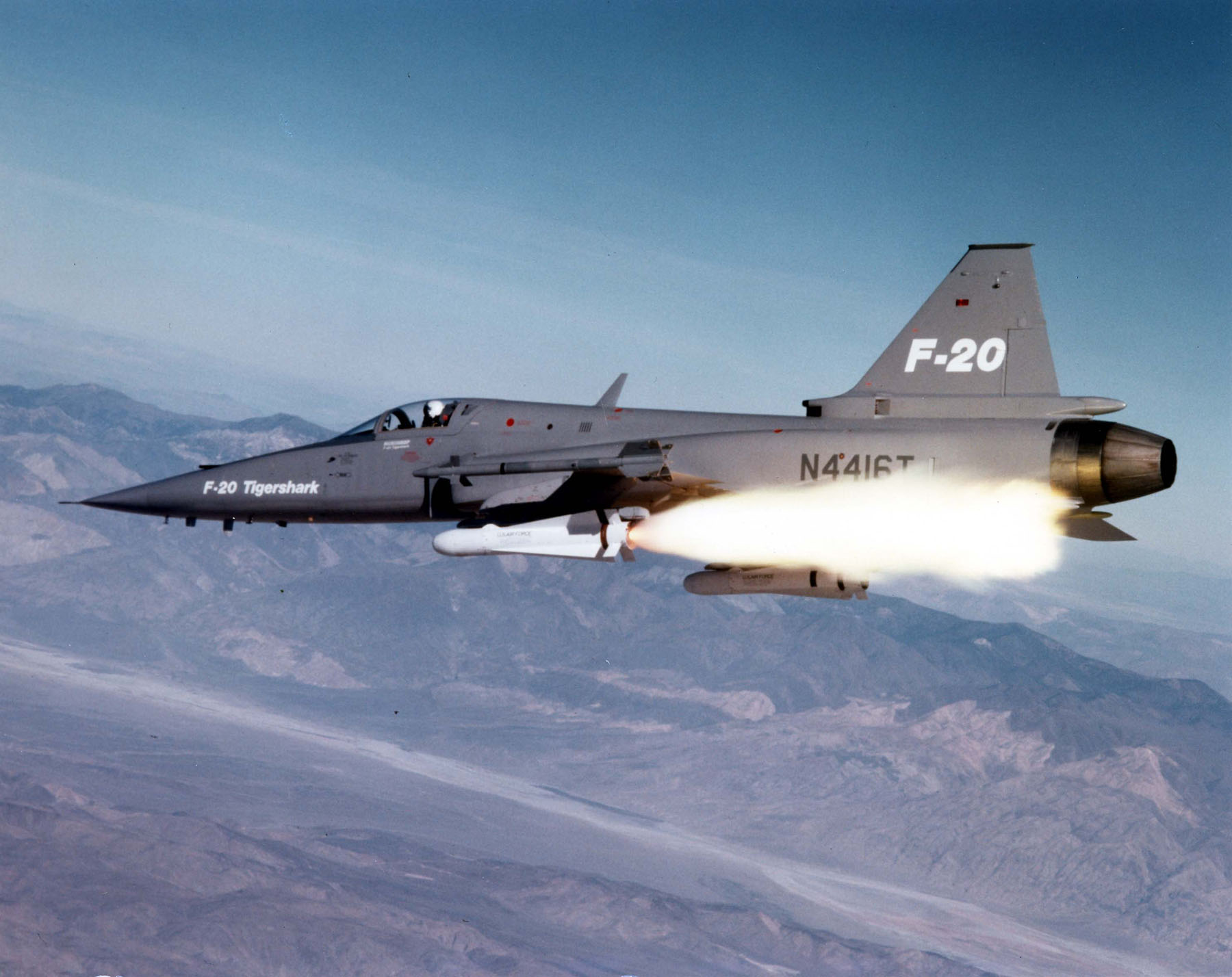 Northrop F-20 (Reg. No. N4416T) in flight firing a AGM-65 Maverick missile. (U.S. Air Force photo)